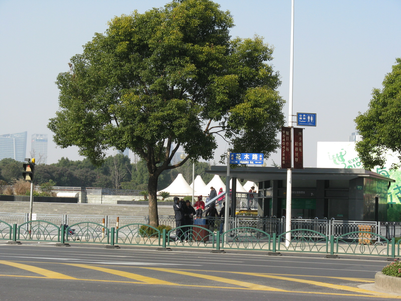 Huamu Road,Shanghai,China